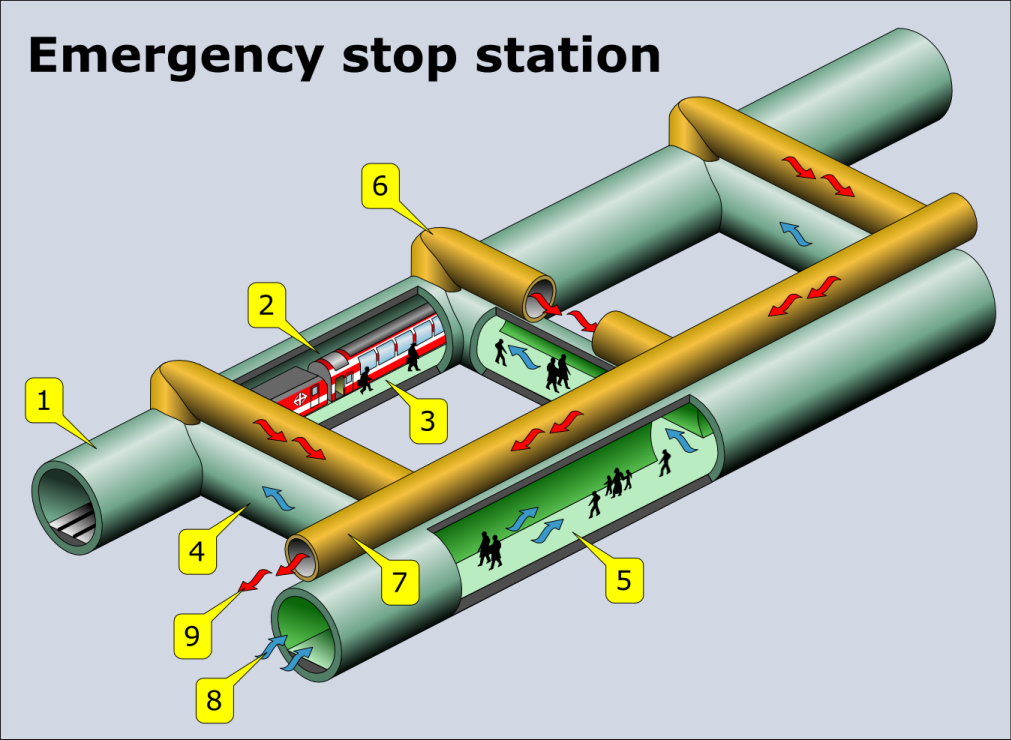 GBT - Emergency Stop Station: 1-main tunnel, 2-Emergency stop in the tunnel, 3-output area, 4-passageway, 5-evacuation tunnel, 6-exhaust, 7-main exhaust, 8-fresh air, 9-fouling